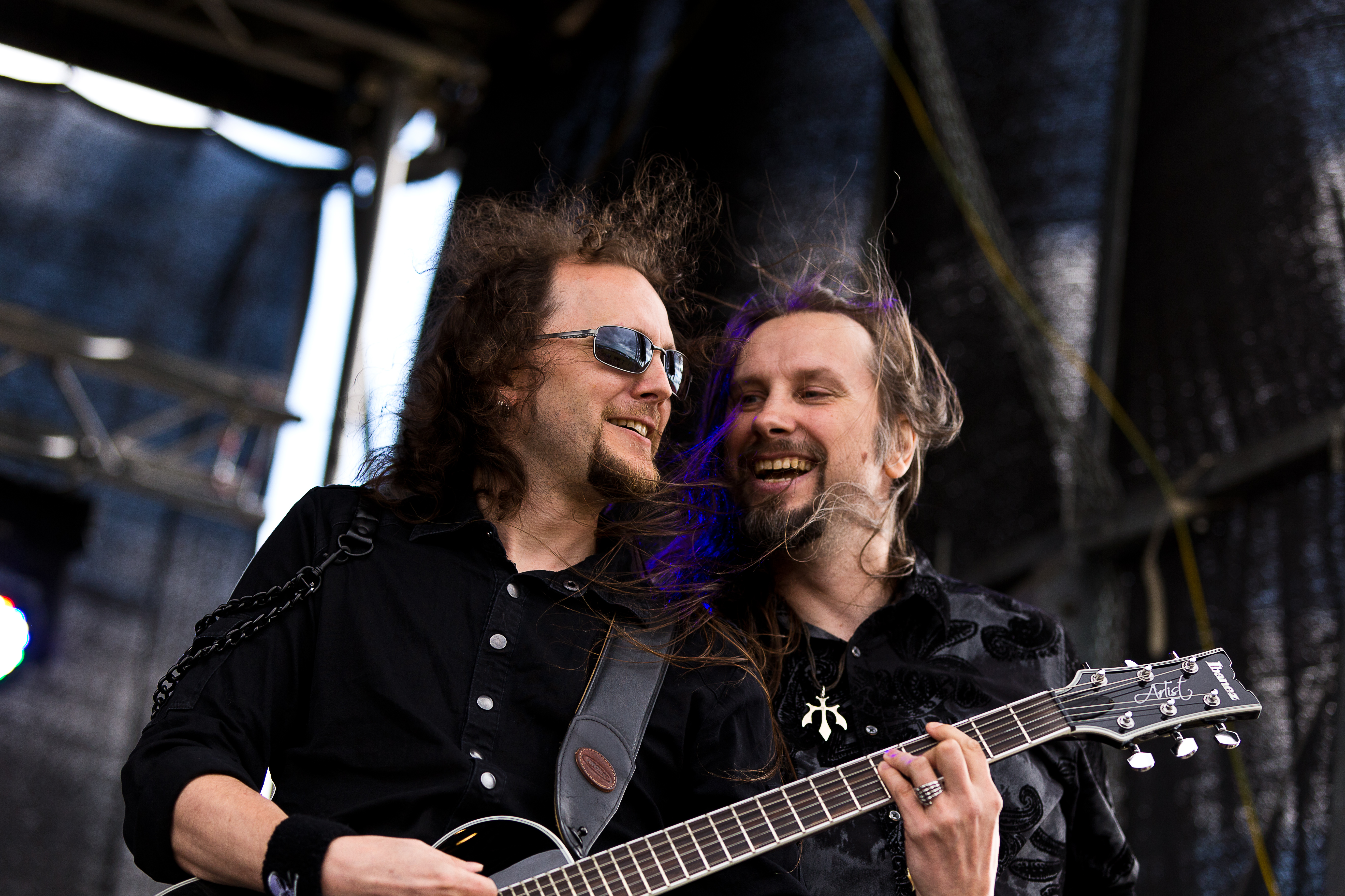 The international metal band Serious Black at the Rockharz Open Air 2015 in Ballenstedt/Germany.